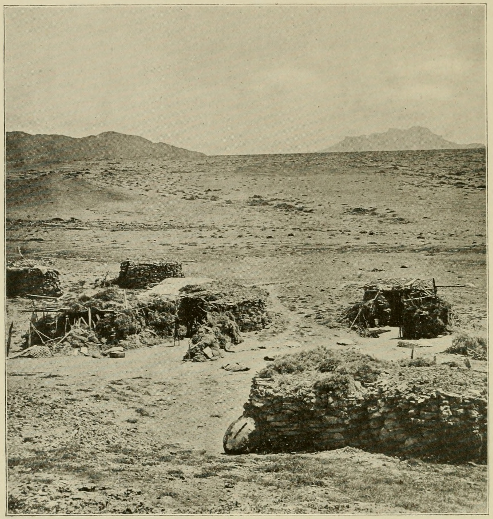 Abd al Kuri houses in 1898, from The Natural History of Socotra and Abd-el-kuri